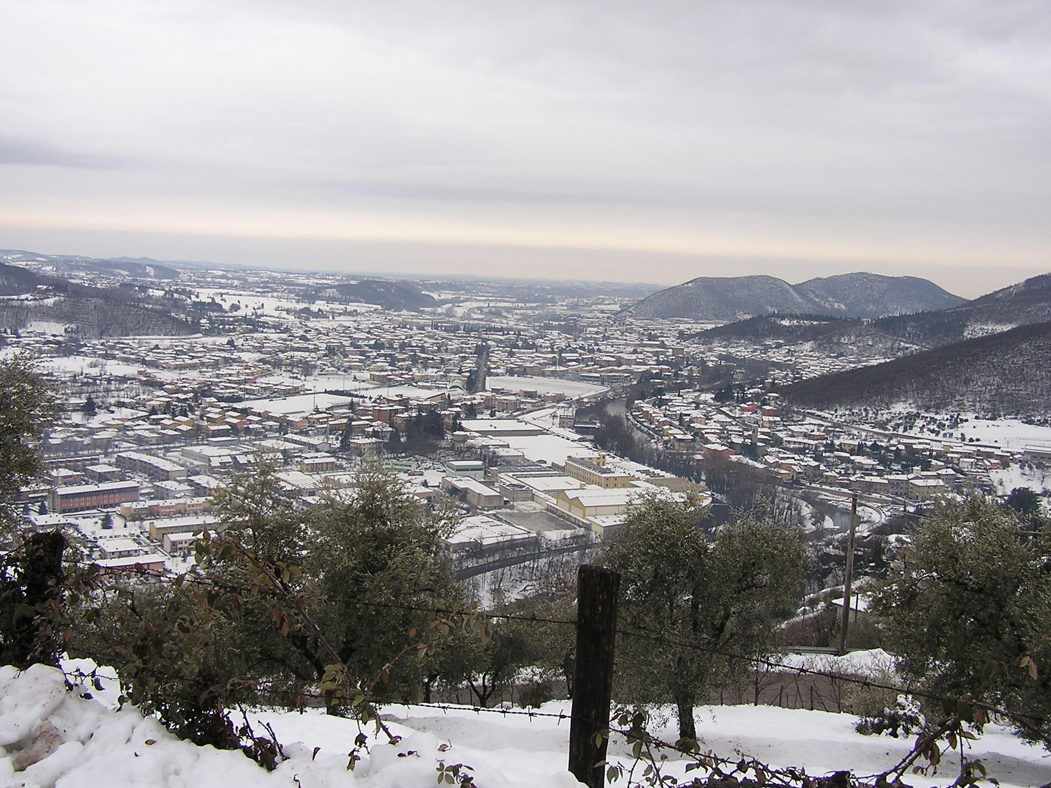 Gavardo with road of Monte Magno after the snowfall in 2006